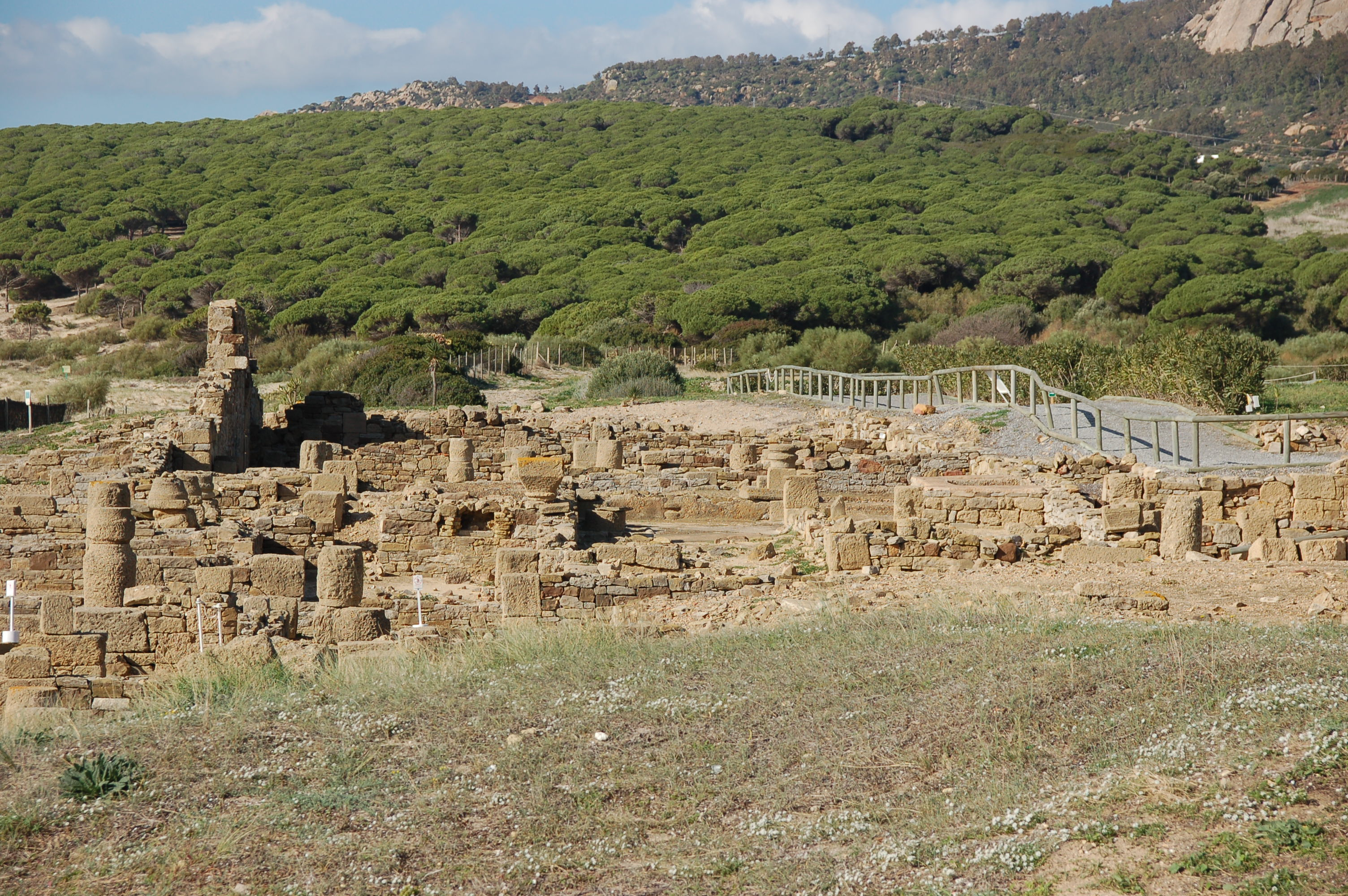 The Roman ruins of Baelo Claudia in Bolonia, Cádiz, Spain